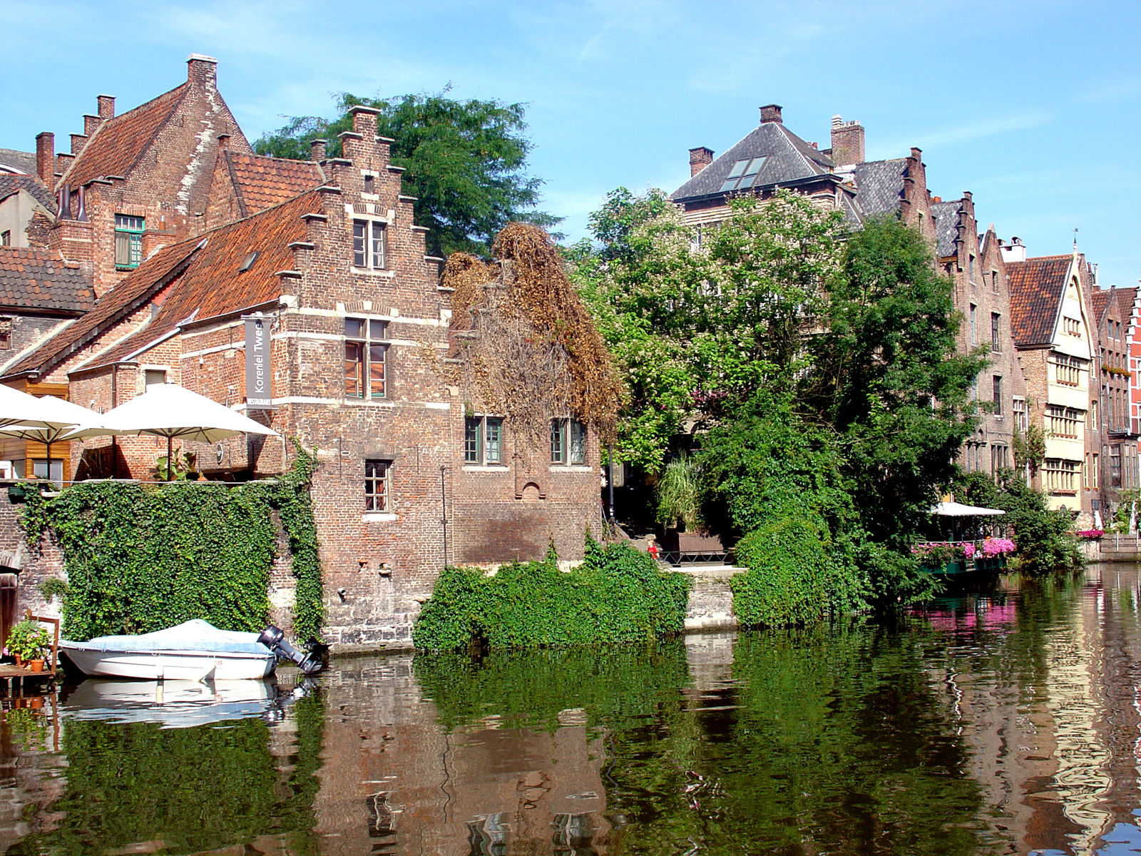 Historic centrum of Ghent, Belgium Historické centrum města Ghent, Belgie Date= July 2006 Author= Karelj